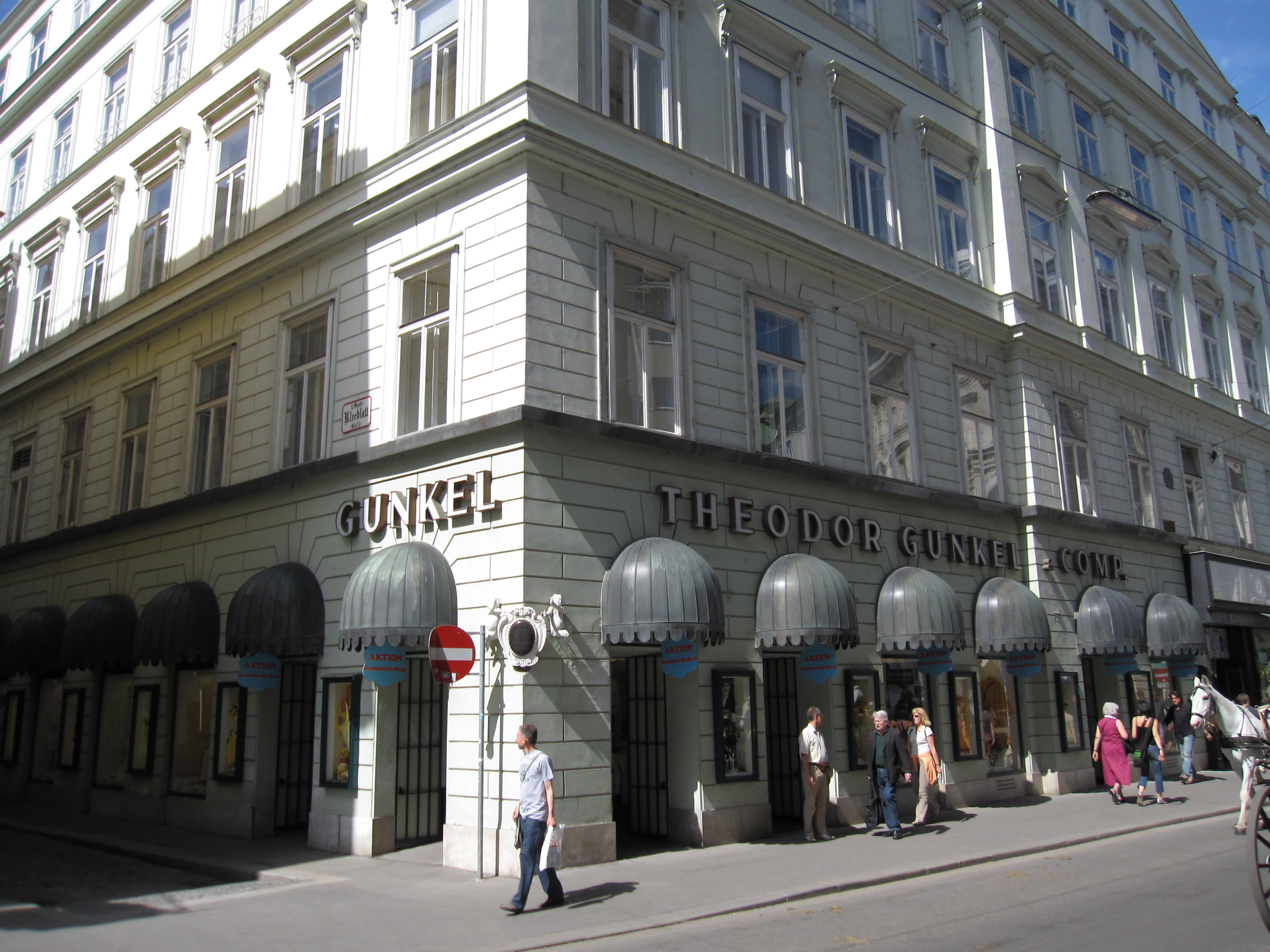 Theodor Gunkel & Comp. in Vienna's I. district.